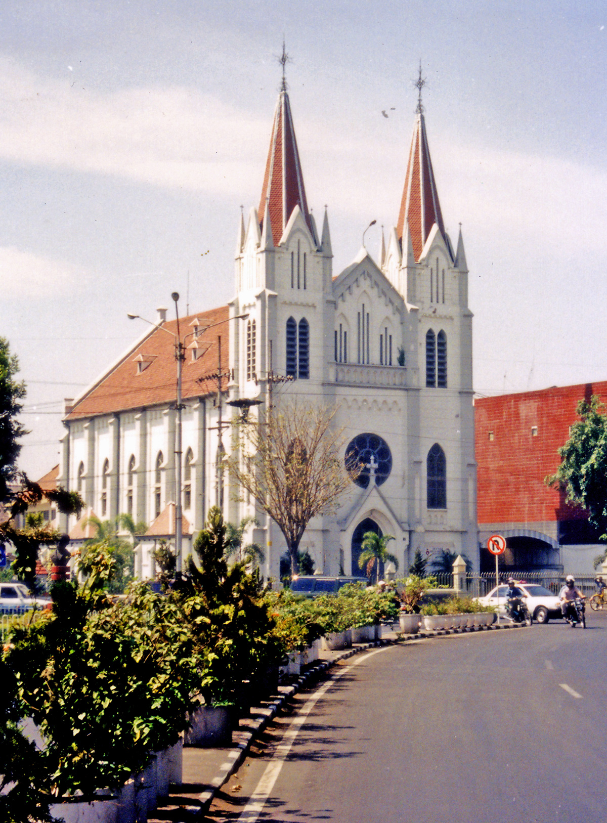 Colonial Church